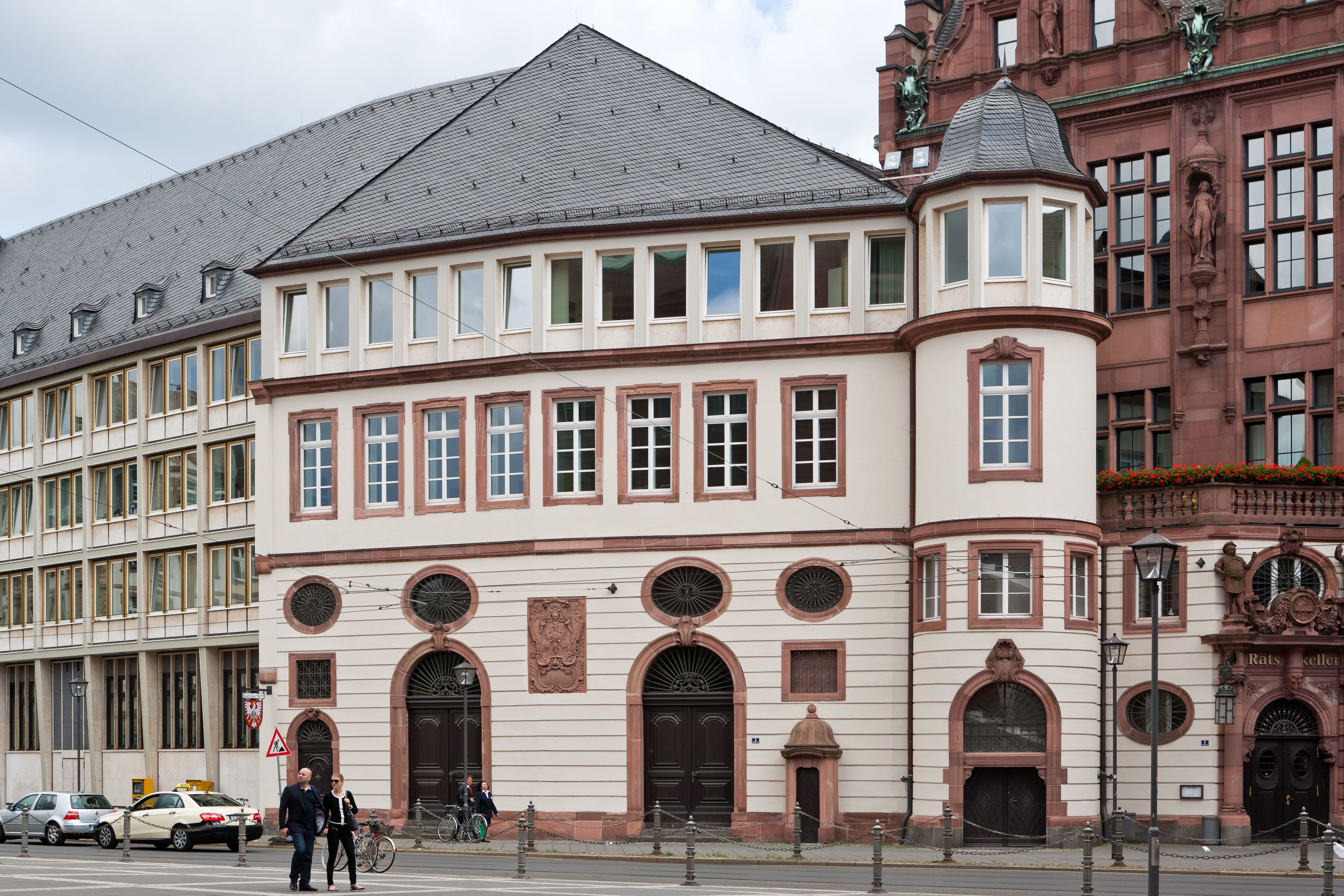 Frankfurt on the Main: Paulsplatz (Paul's Square) 3 as seen from the northwest